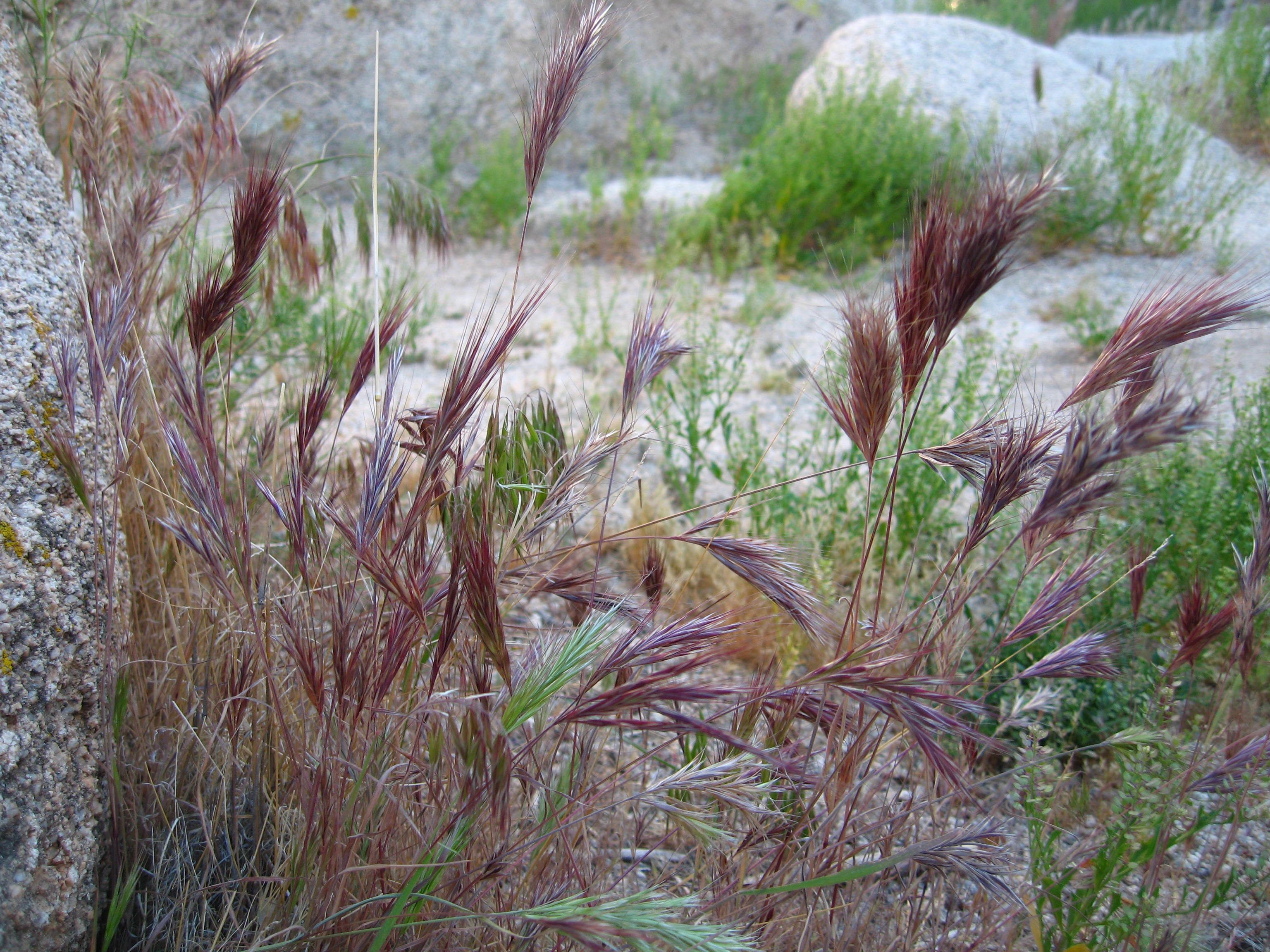 Tree, shrubs, and grasses of Joshua Tree National Park: Red brome (Bromus madriensis rubens); Hidden Valley